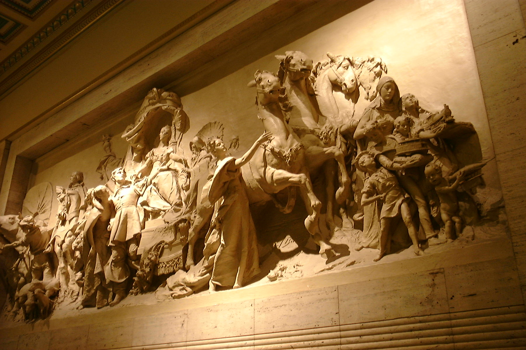 Terra-cotta plaque “Spirit of Transportation” by Karl Bitter (1867–1915).This plaque is located on the west wall of the waiting area of 30th Street Station in Philadelphia, Pennsylvania. It depicts the evolution of transportation as a triumphal procession. “Transportation” herself is riding in a chariot in the middle.The plaque was originally installed at Broad Street Station and was moved to the present location in 1933.